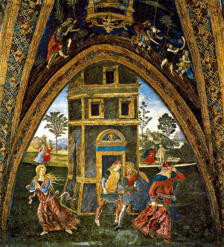 The Martyrdom of Saint Barbara